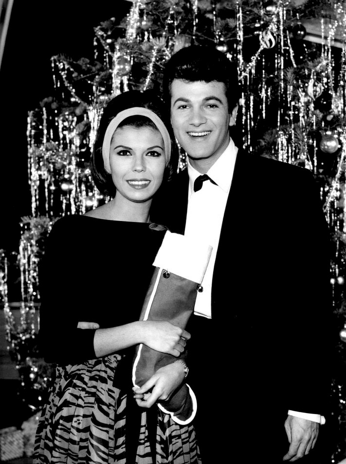 Photo of Nancy Sinatra and her husband at the time. Tommy Sands, from an appearance on the game show Stump the Stars.